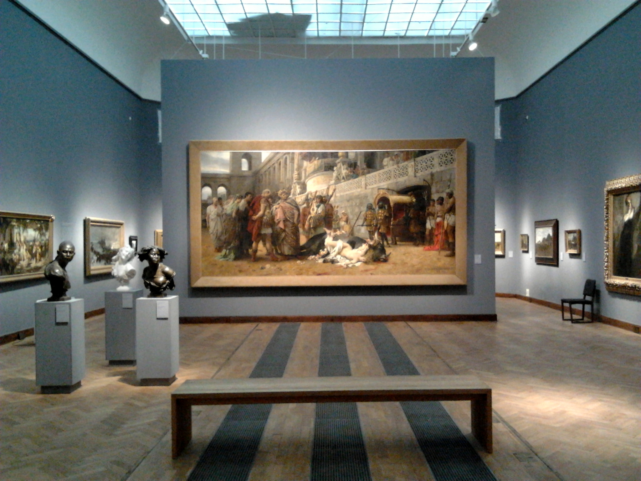 Gallery of 19th-century Art of the National Museum in Warsaw.